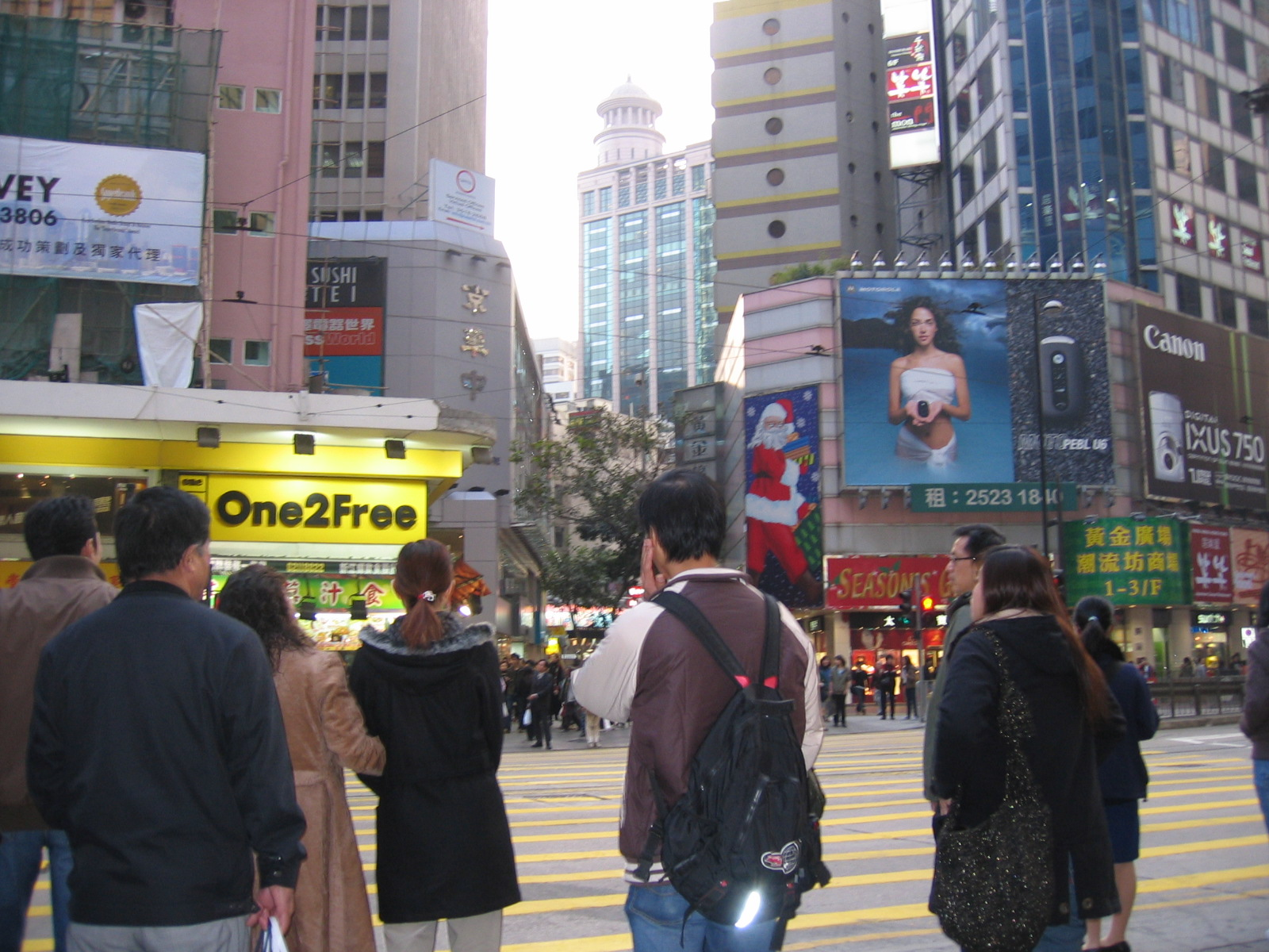 Crossing at Hennessy Road, Yee Wo Street, Lockhart Road and Jardine's Cresent, Causeway Bay, Hong Kong.